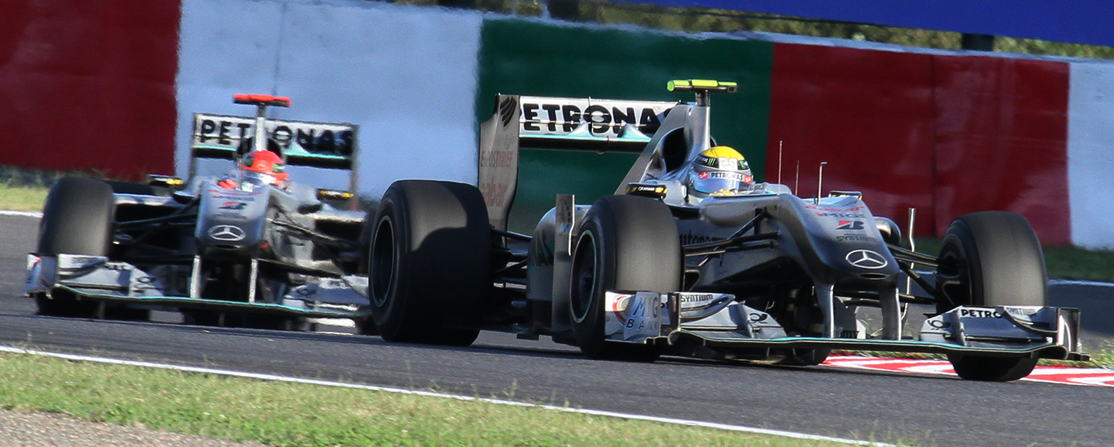 Formula One 2010 Rd.16 Japanese GP: Nico Rosberg (Mercedes GP) during the race.